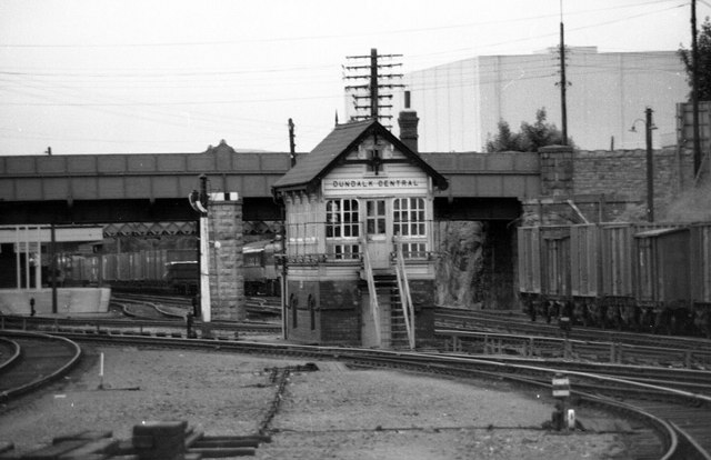 Dundalk Central Signal Cabin Dundalk Central Signal Cabin is located at the South end of Dundalk station. Ardee Road bridge is behind the signal box, and the tall ugly grey building belongs to the Great Northern Brewery. Harp Larger and Guinness is brewed there. This view was made in 1979.